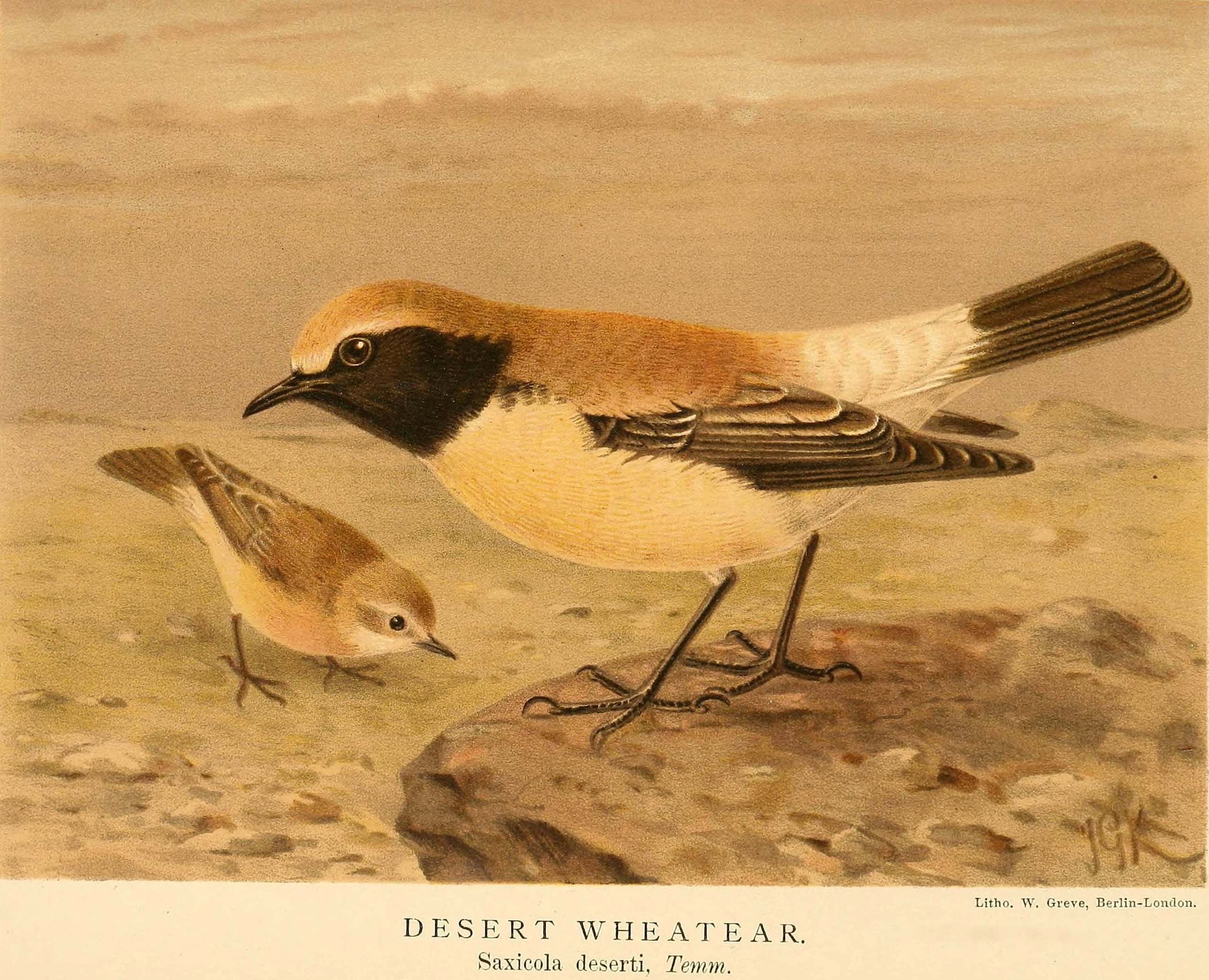 Oenanthe deserti Lilford